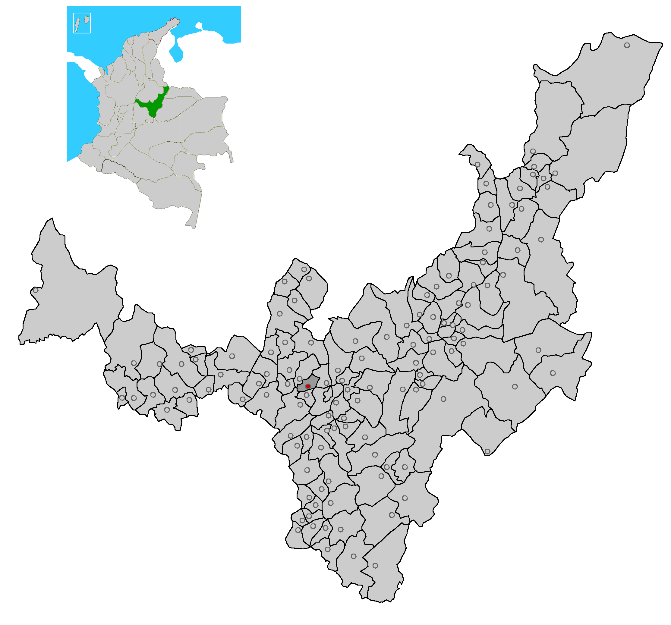 Image depicting map location of the town and municipality of Sora in Boyaca Department, Colombia